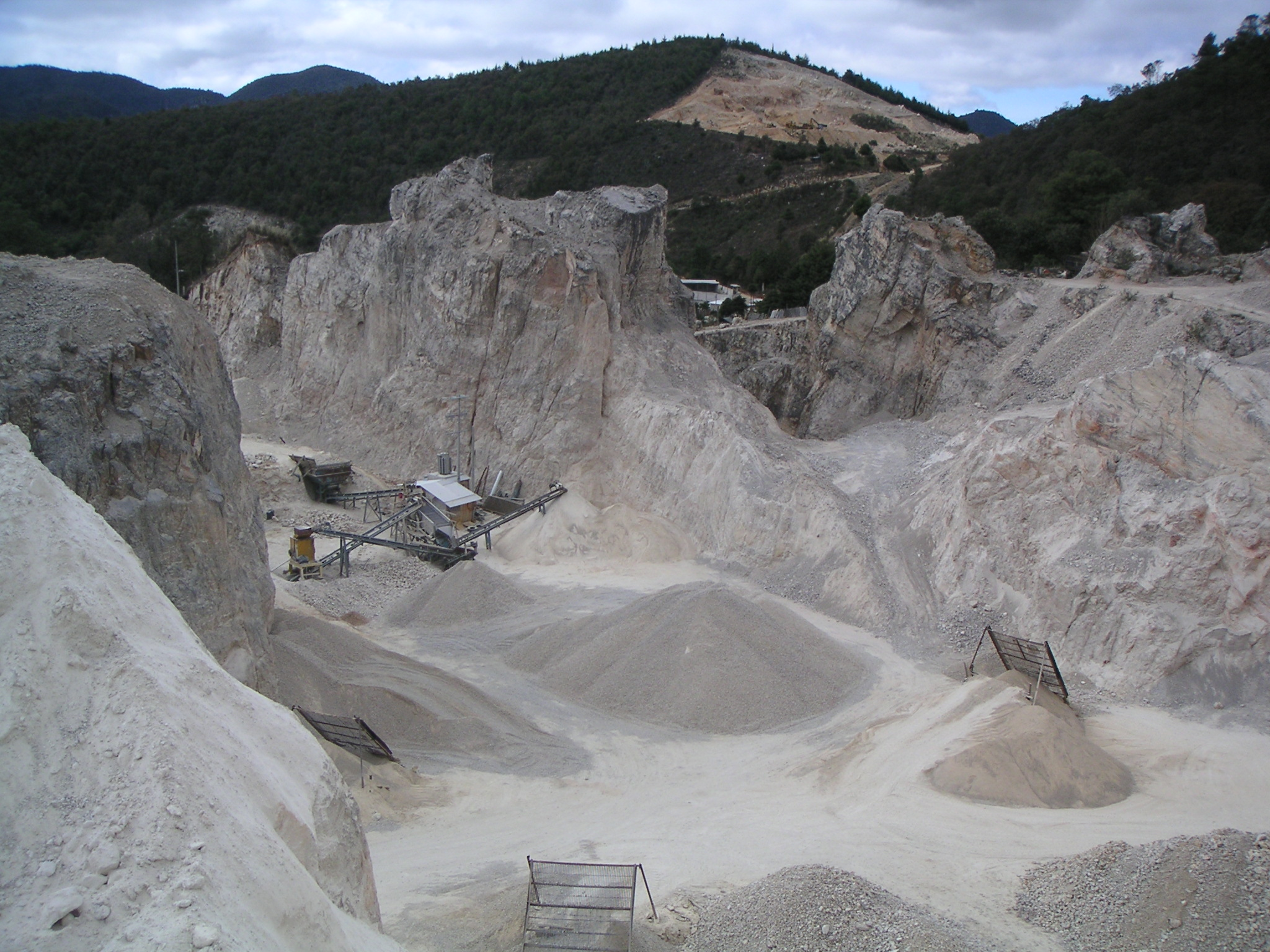 Hole in the flank of the mountain "Cerro de la Santa Cruz" to the East of San Cristobal de las Casas, Chiapas, Mexico made for the extraction of gravel.